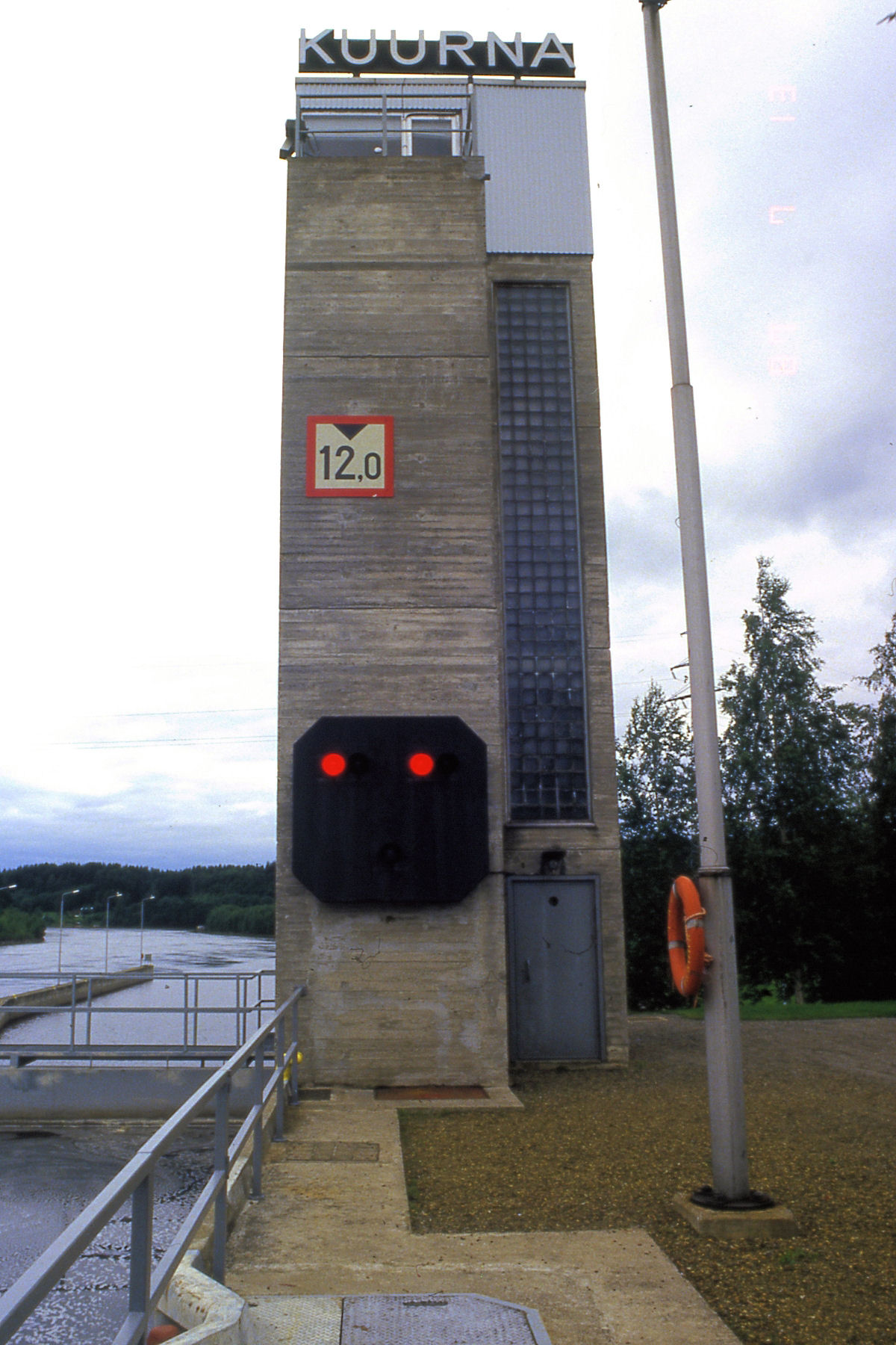 Kuurna Canal in Kontiolahti, Finland.